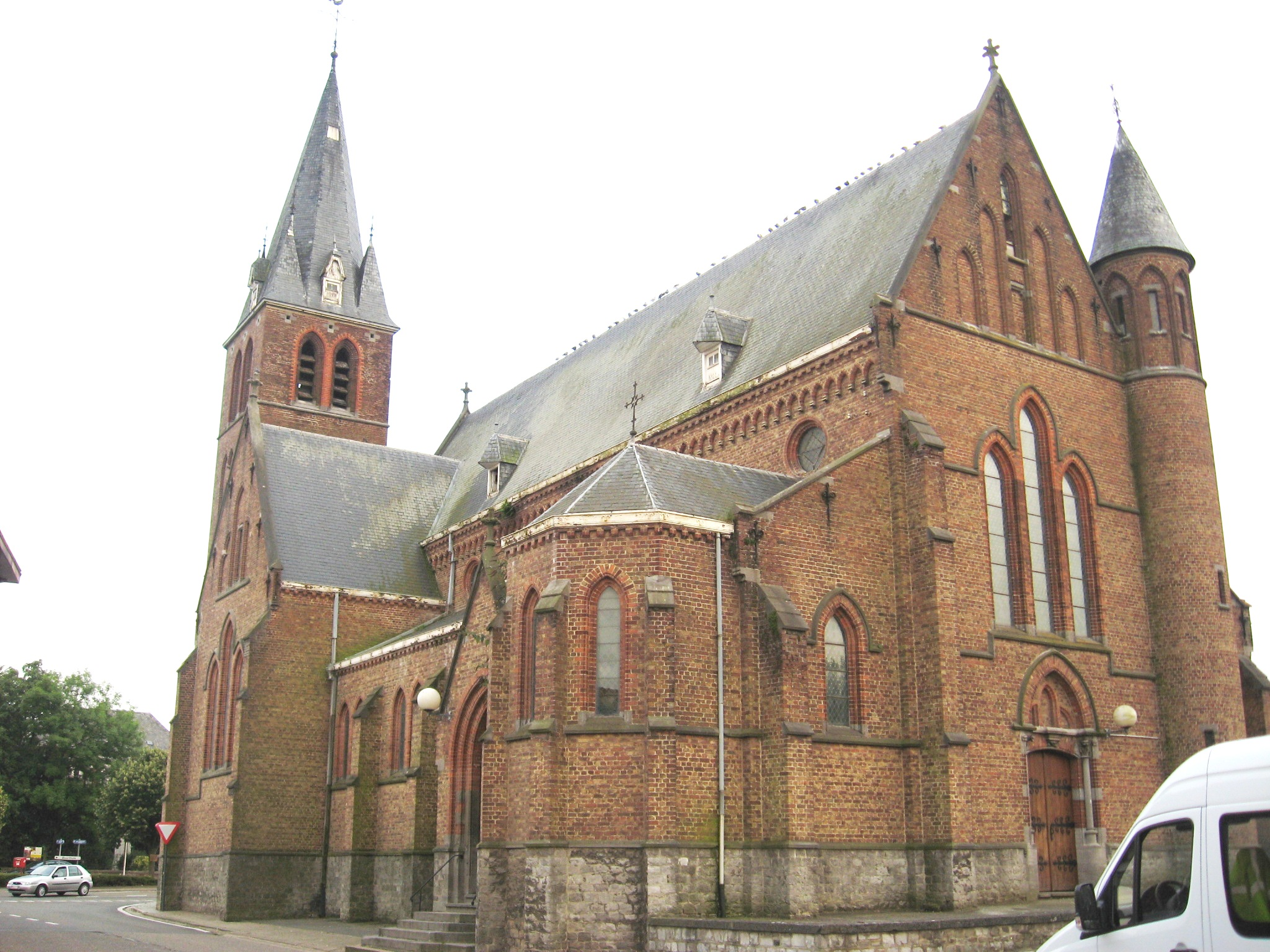 Church of Saint Anne in Mechelen-Bovelingen, Heers, Limburg, Belgium